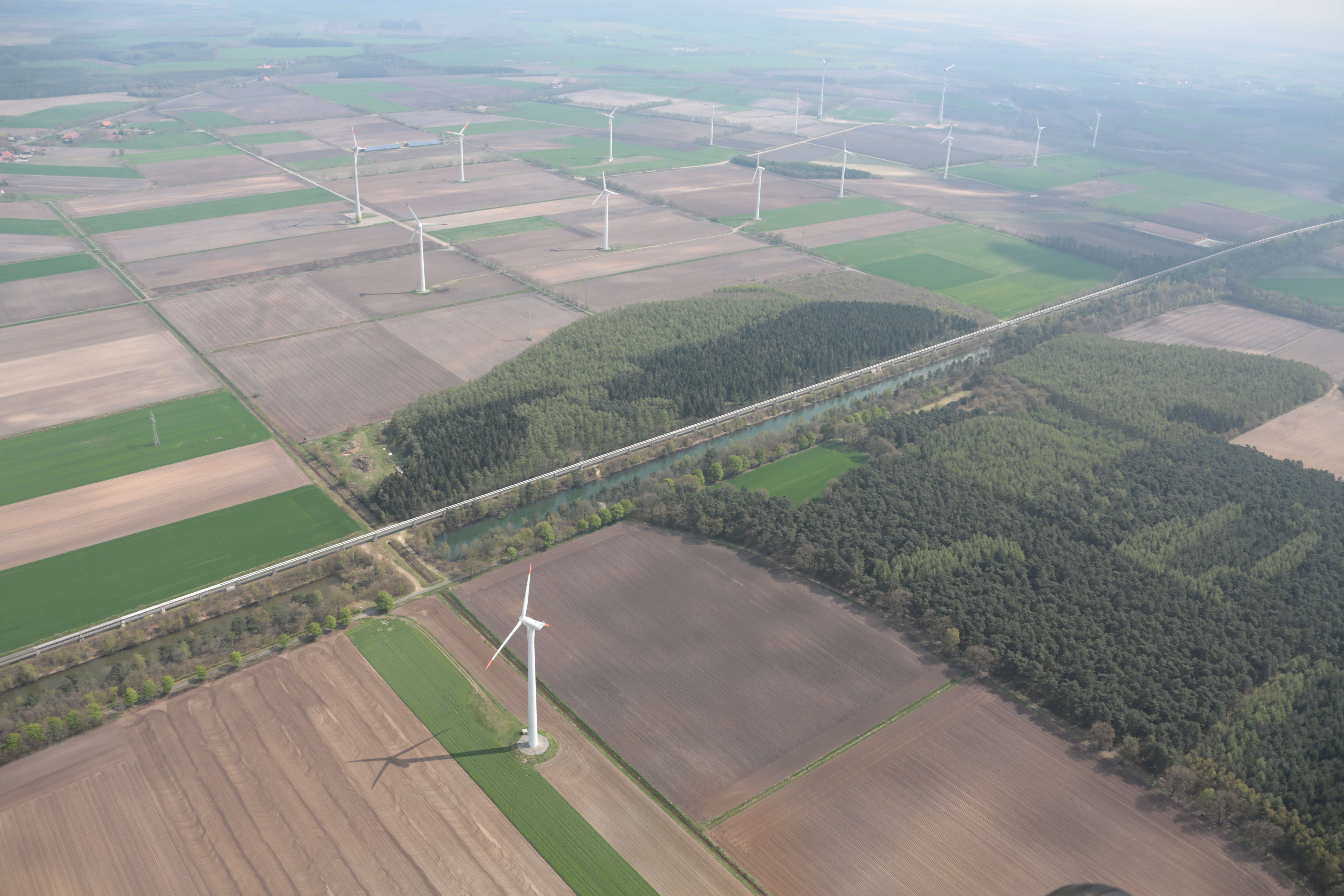 Fotoflug von Nordholz-Spieka nach Oldenburg und Papenburg This photo was taken by Alchemist-hp. If you use one of my photos, an email (account needed) or a message or direct to: my email account would be greatly appreciated. Please note the license terms. Other licensing terms can get discussed, too. This file is copyrighted and has been released under a license which is incompatible with Facebook's licensing terms. It is not permitted to upload this file to Facebook.